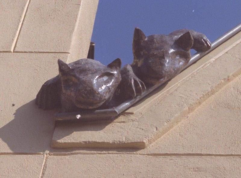 the first gutterghosts in the town of Zaltbommel